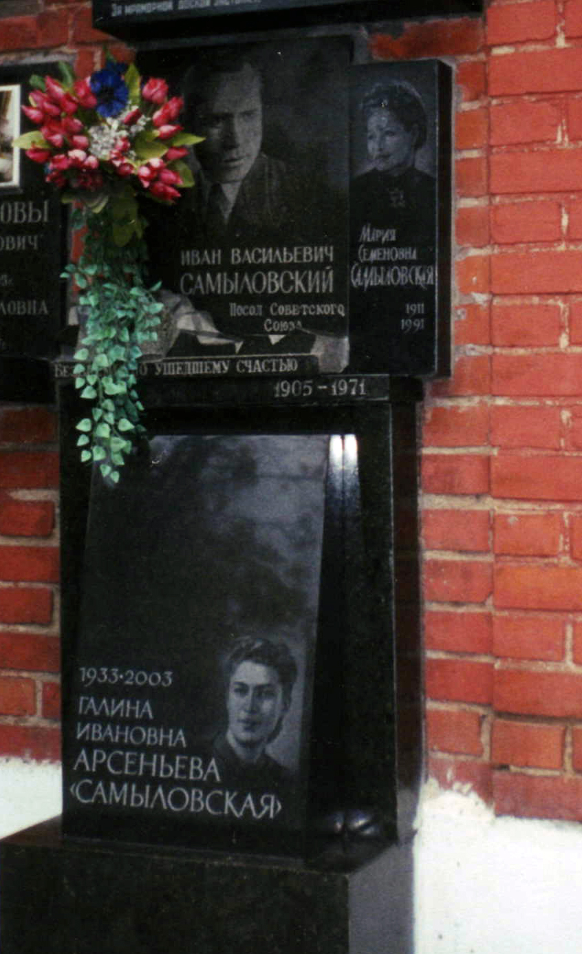 Family burial of Ivan Samylovskii together with his wife Maria Samylovskaya and his daughter Galina Arsenyeva (maiden Samylovskaya) at Novodevitchii Cemetery in Moscow. Photo taken in March 2008.